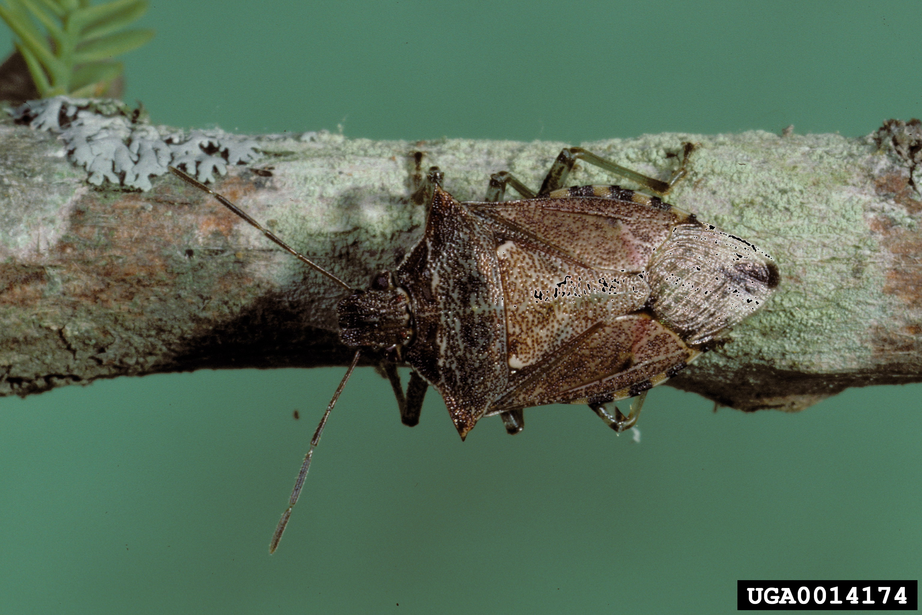 Podisus maculiventris (adult) ; family Pentatomidae